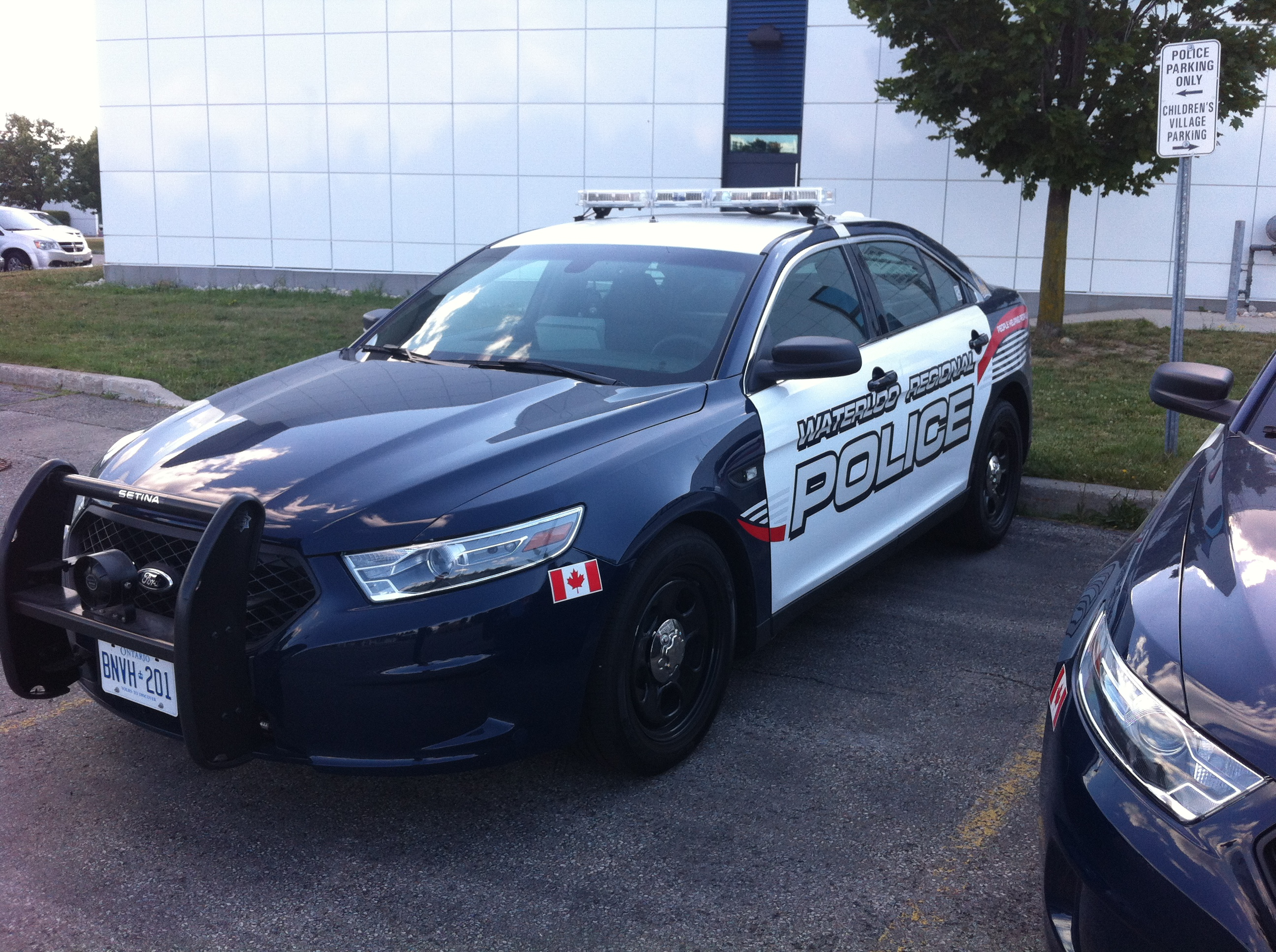 New Waterloo Regional Police Car (2013 Ford Taurus)